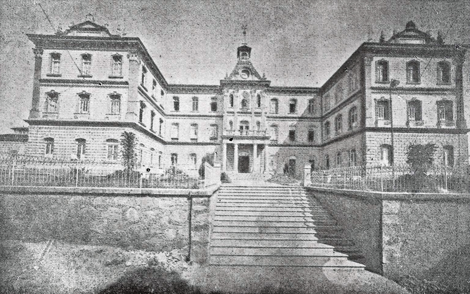 Academia de Comércio, Juiz de Fora, Brazil.